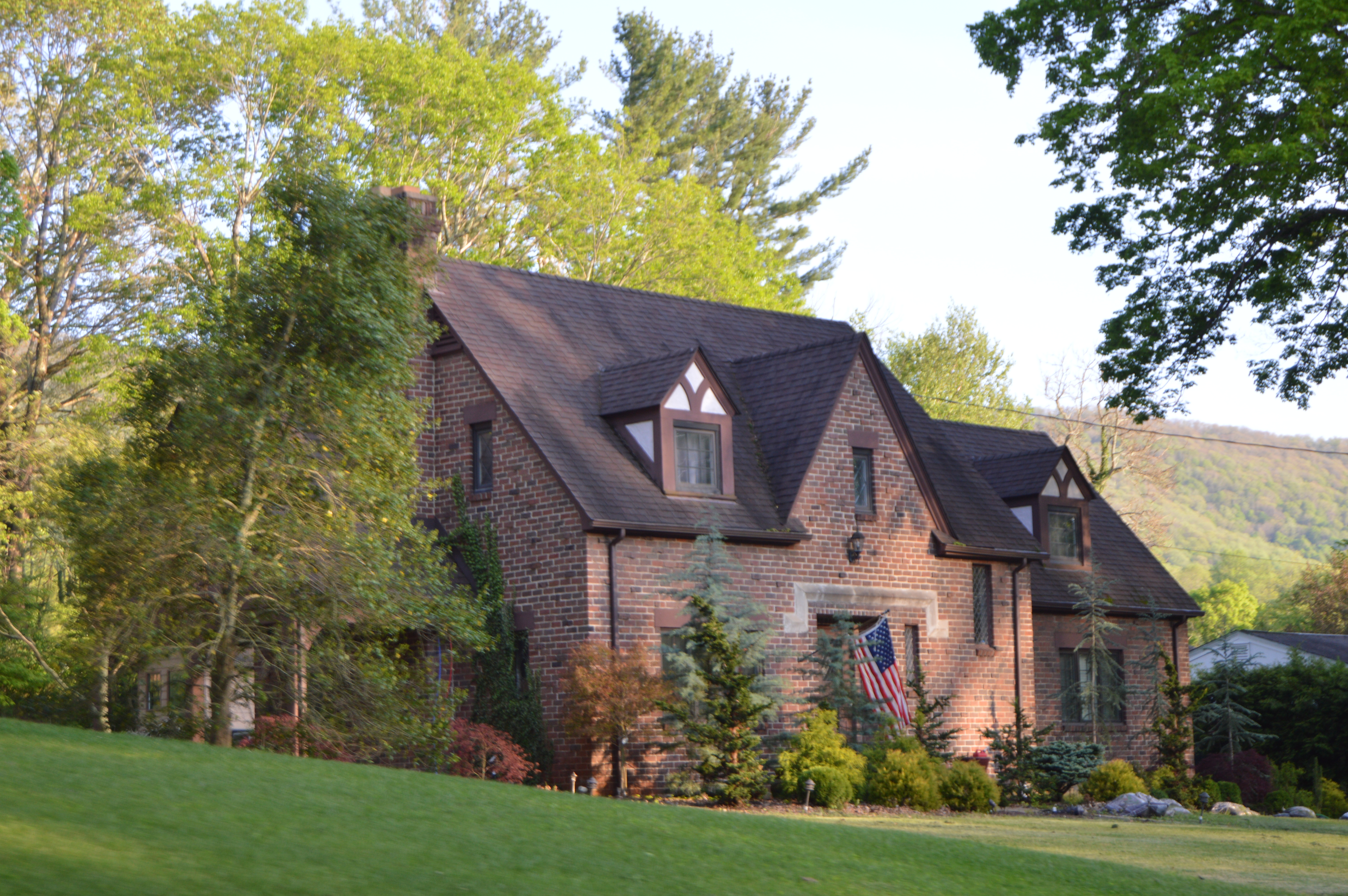 Front of the house on Edgewood Road southwest of Mountain View Avenue in Bluefield, West Virginia, United States. It is part of the Upper Oakhurst Historic District, a historic district that is listed on the National Register of Historic Places.